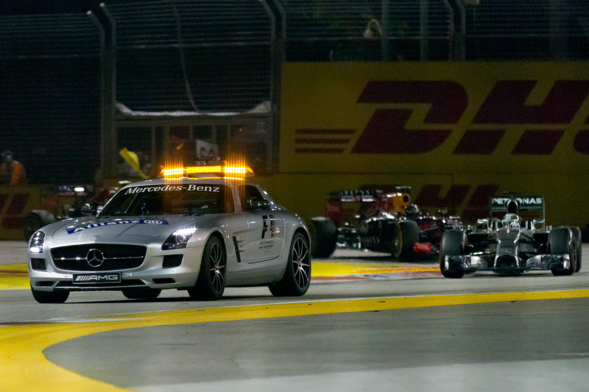 Formula One 2014 Rd.14 Singapore GP: Safety car and medical car